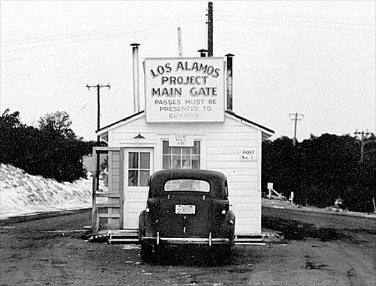 Main gate at the Los Alamos laboratory